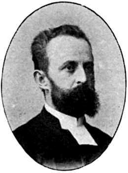 Image scanned from the book "Svenskt Porträttgalleri II" ("Swedish Portrait Gallery II") published 1899